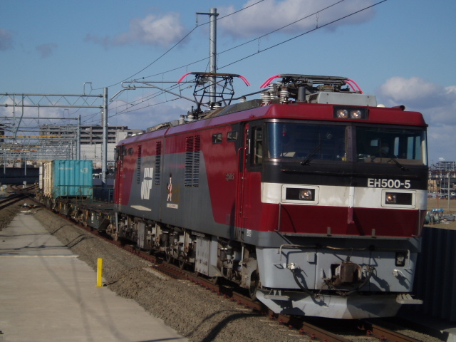 JR Freight EH500 electric locomotive EH500-5 on a freight service at Nagacho Station